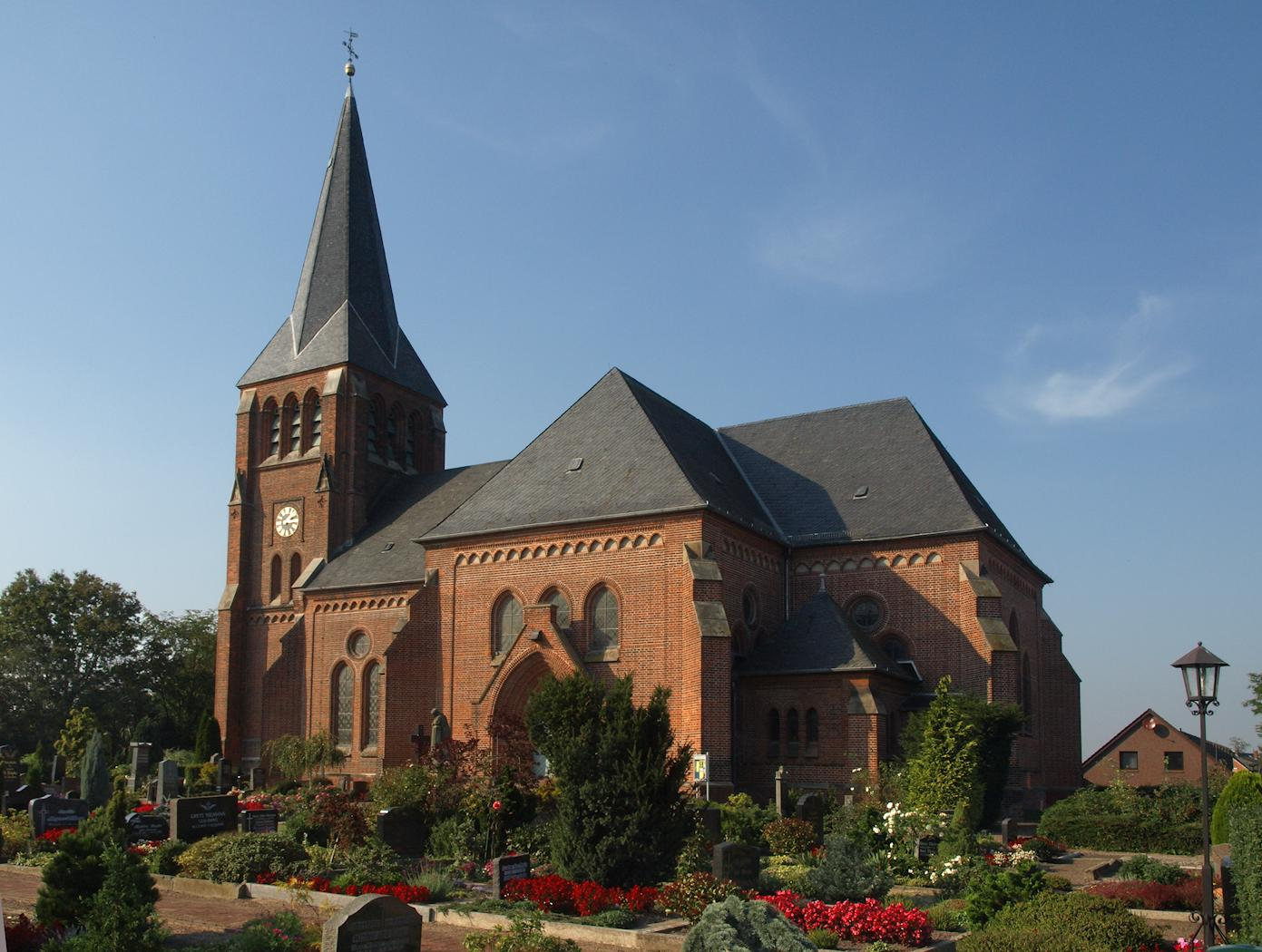 Ss. Cosmas and Damian Church in Lunsen (Lower Saxony, Germany), Castle Erbhof, photo 2011